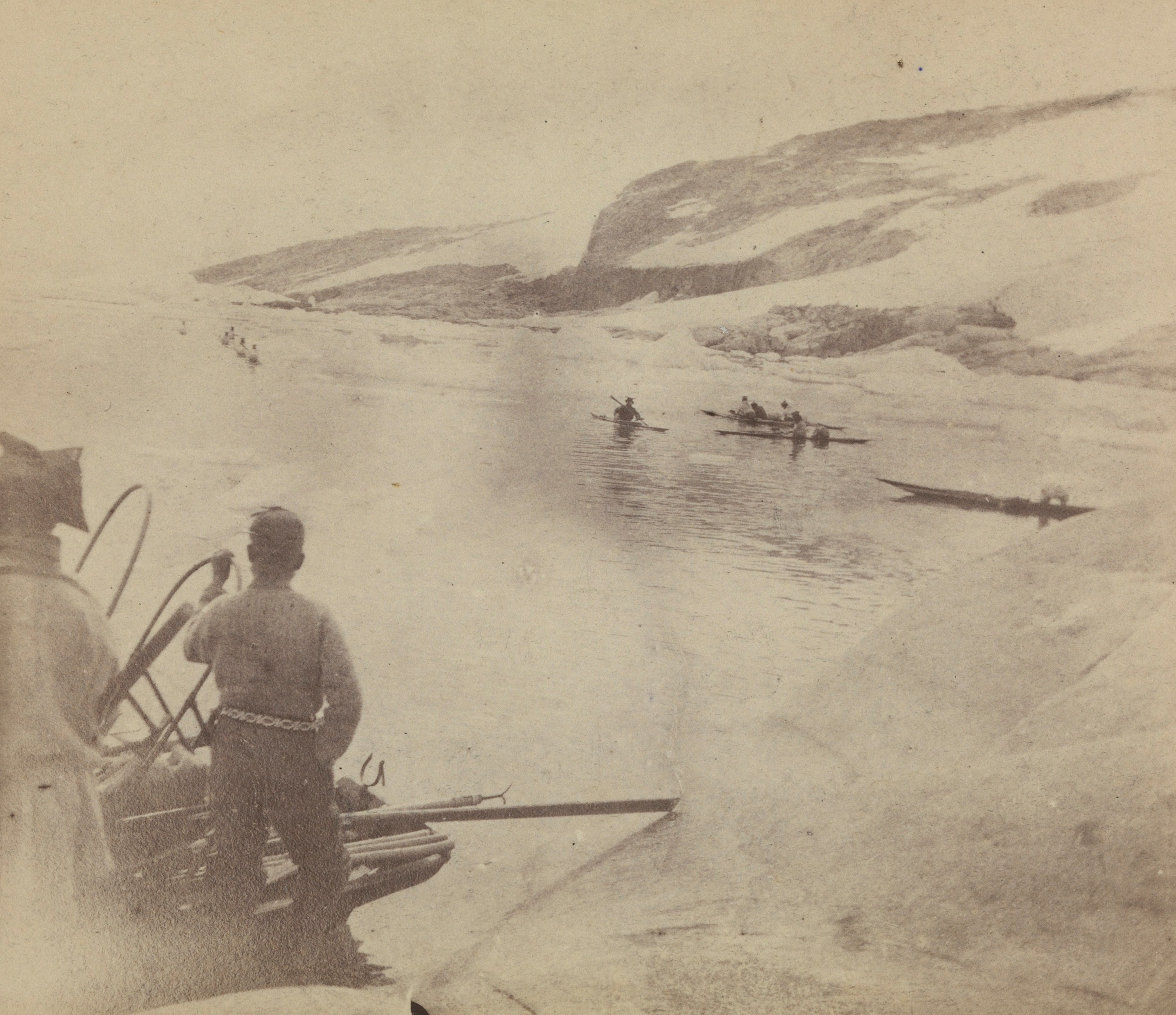 Inuits from Cape Bille bid farewell. They had followed the expedition in their kayaks and «wife-boats» (umiaks) north along the east coast before the ice got too difficult to break through. One of the pictures from the expedition to Greenland in the period July 1888 to May 1889. Fridtjof Nansen together with 5 other Norwegian participants crossed Greenland in the course of a 42-day skiing trip from the east to the west coast.